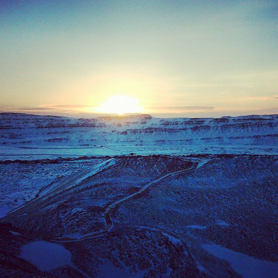 Lever de soleil depuis le sommet de Grabrok